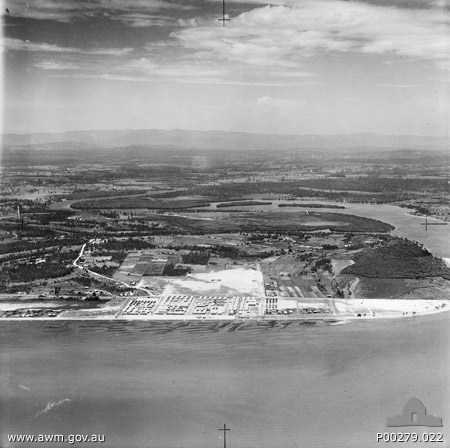 RAAF Station Sandgate, Queensland, 6 December 1944. Aerial obliaue photogragh taken by war photographer William Robinson from an Anson aircraft based at Bundaberg.